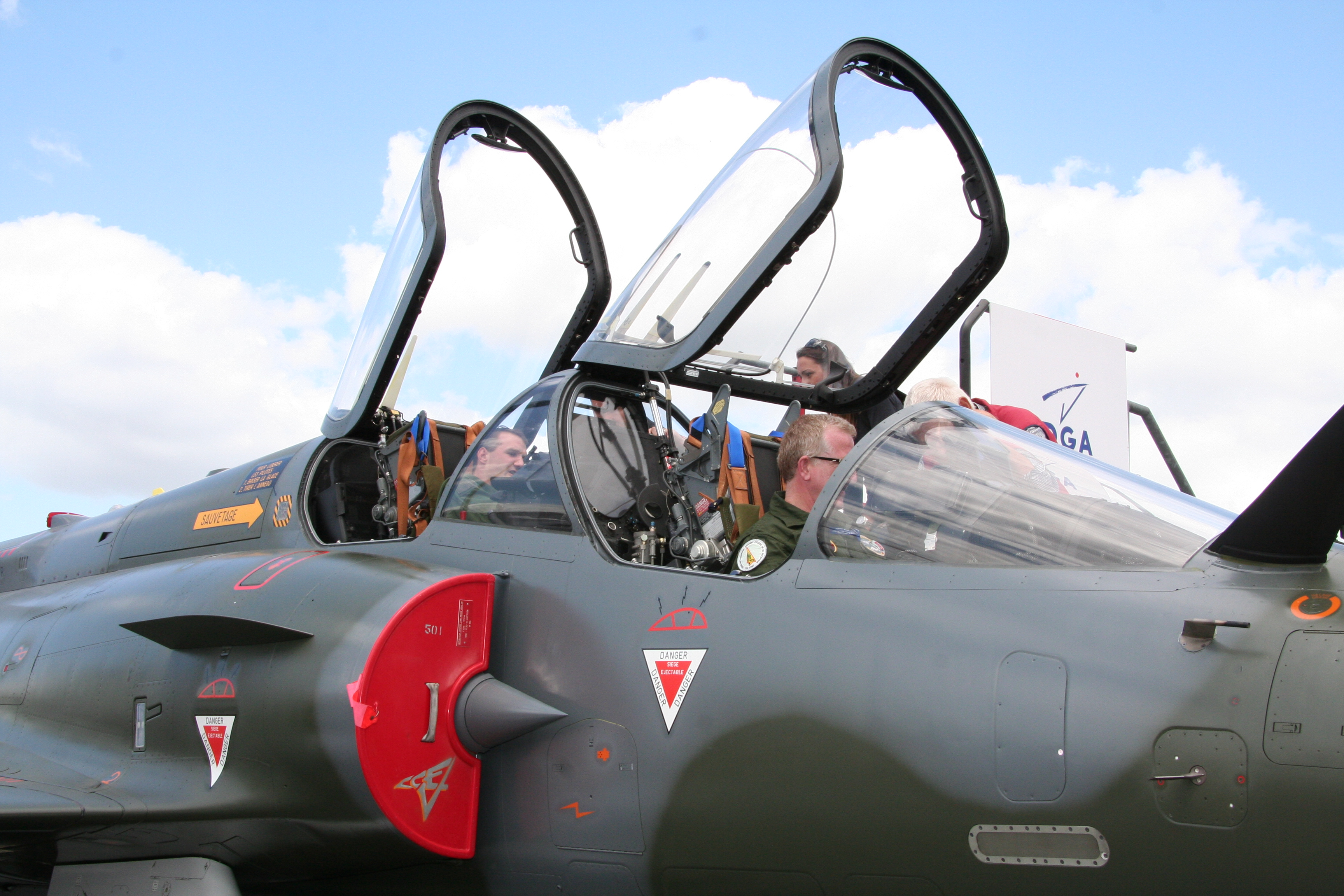 Dassault Mirage 2000 - Paris Air Show 2009